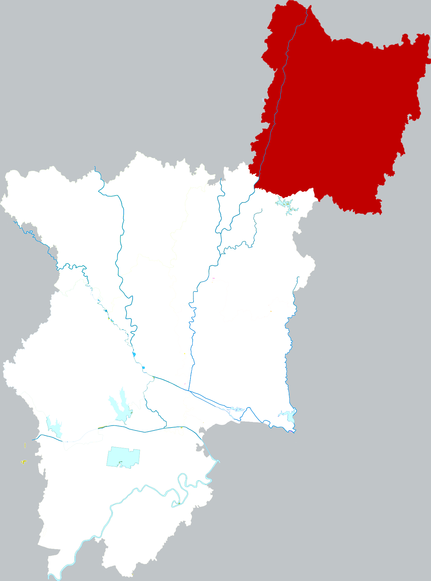 Location of Dawu county in Xiaogan city, China